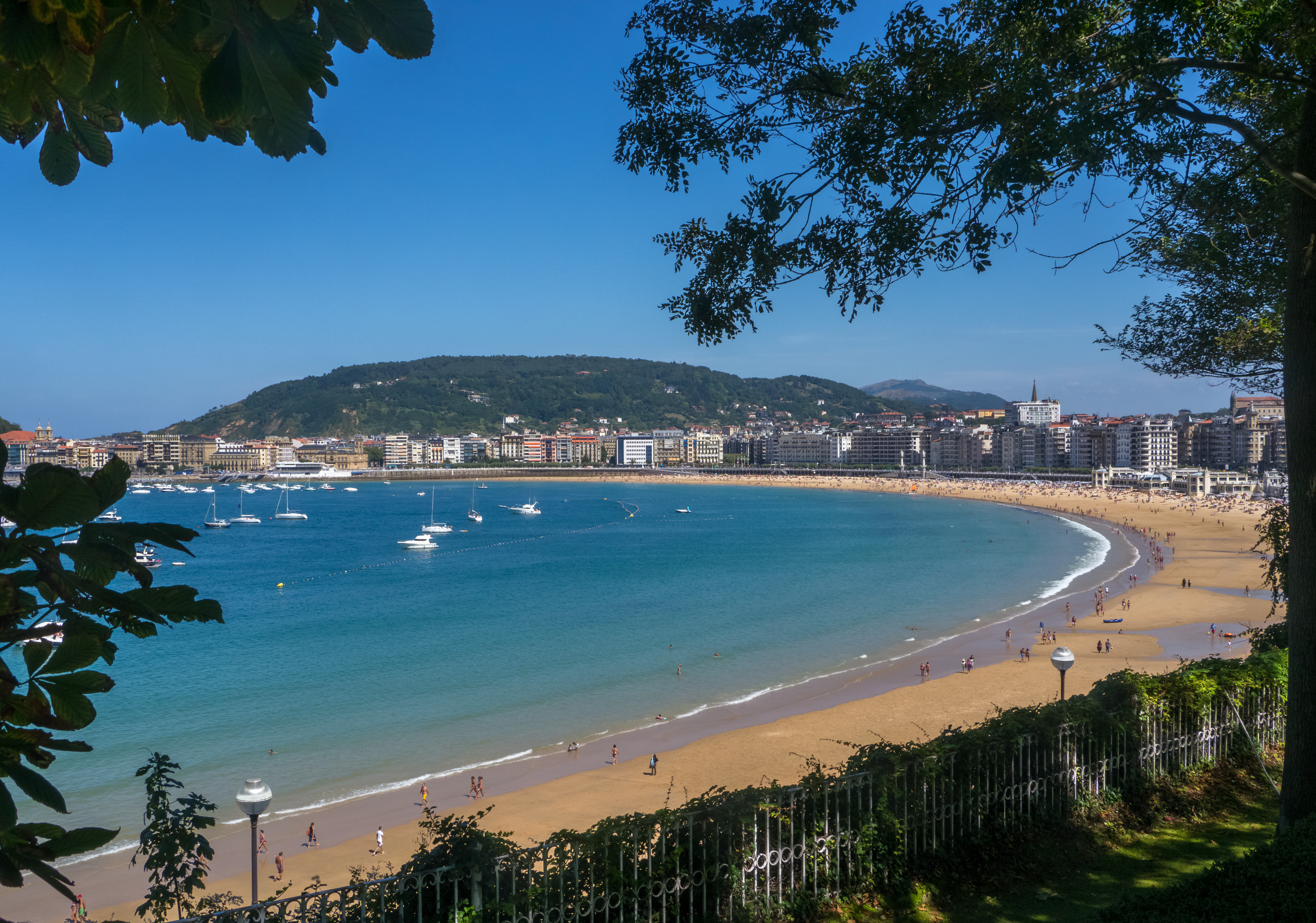 View of Kontxa beach in Donostia-San Sebastian